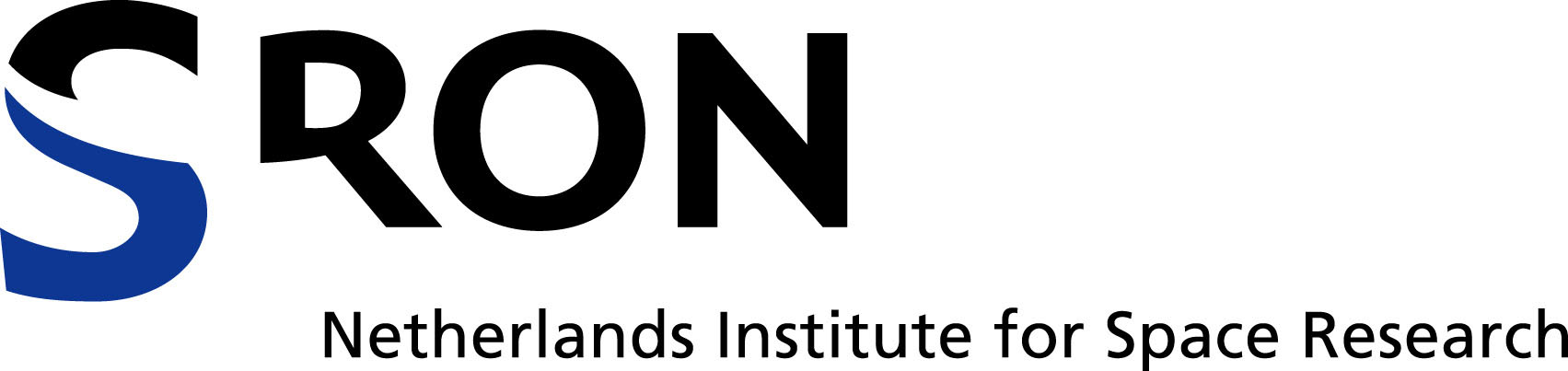 Logo SRON